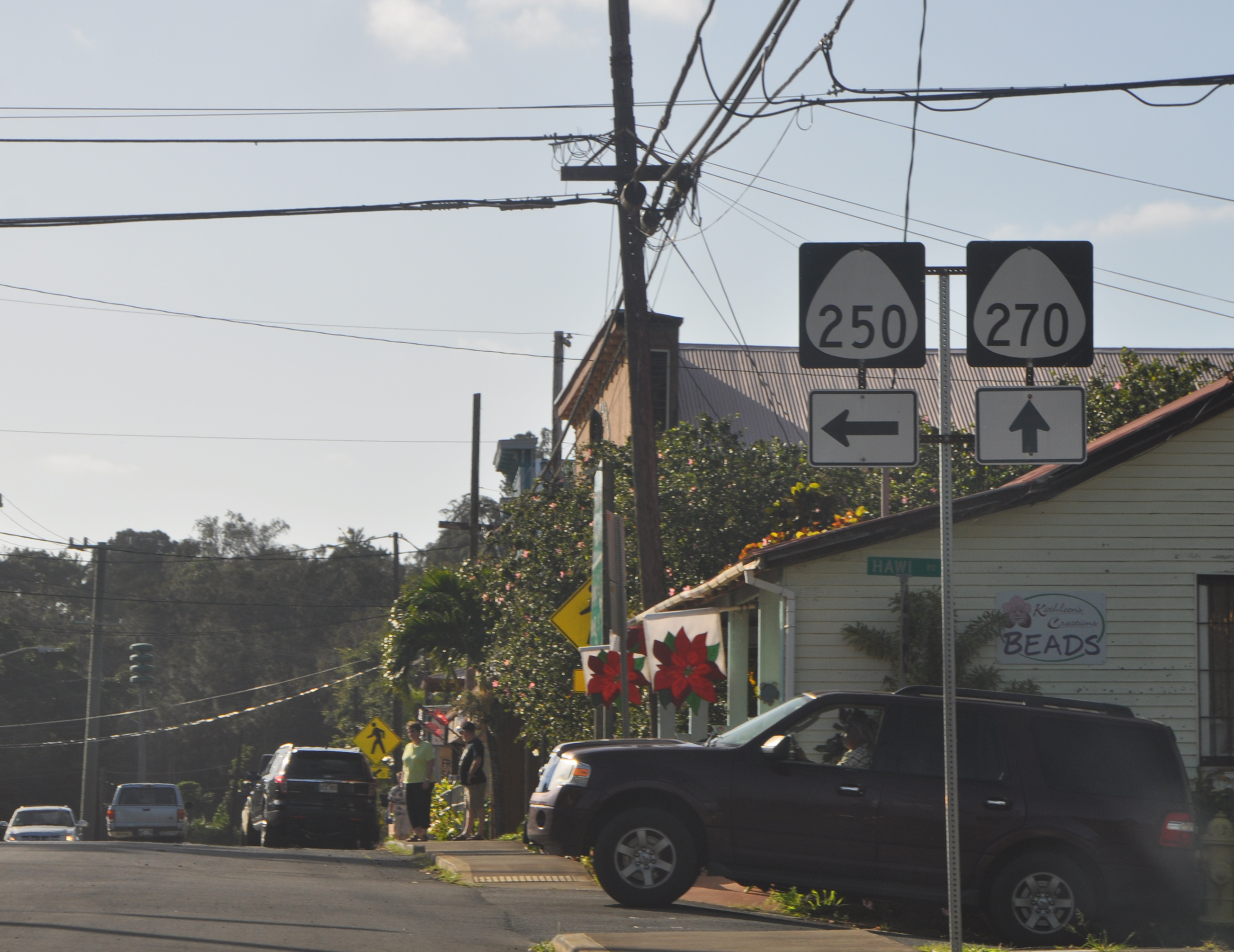 Hawaiiian State Routes 250 and 270, in Hawi, Hawaii, USA